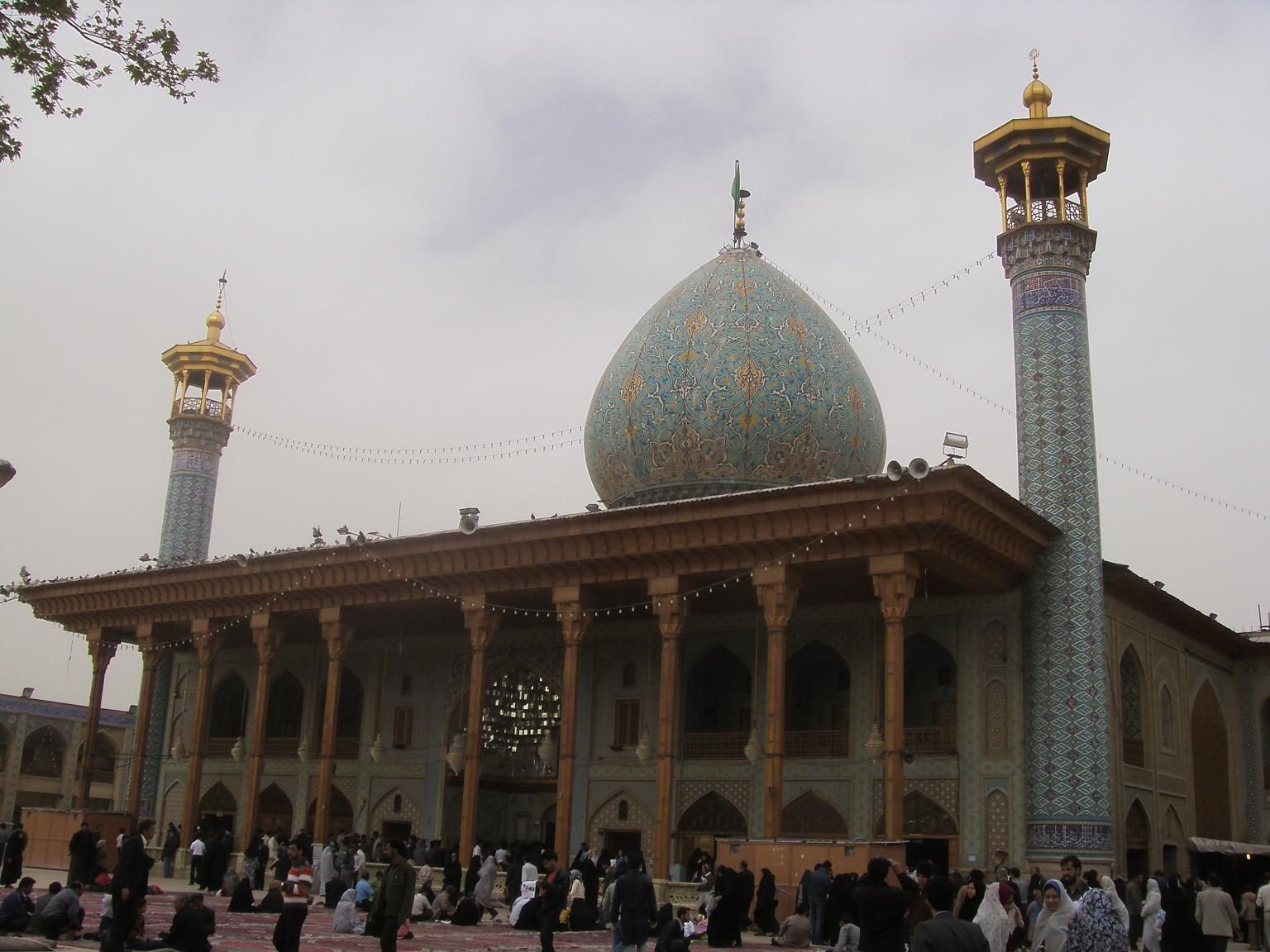 Shahcheragh, Shiraz, Iran